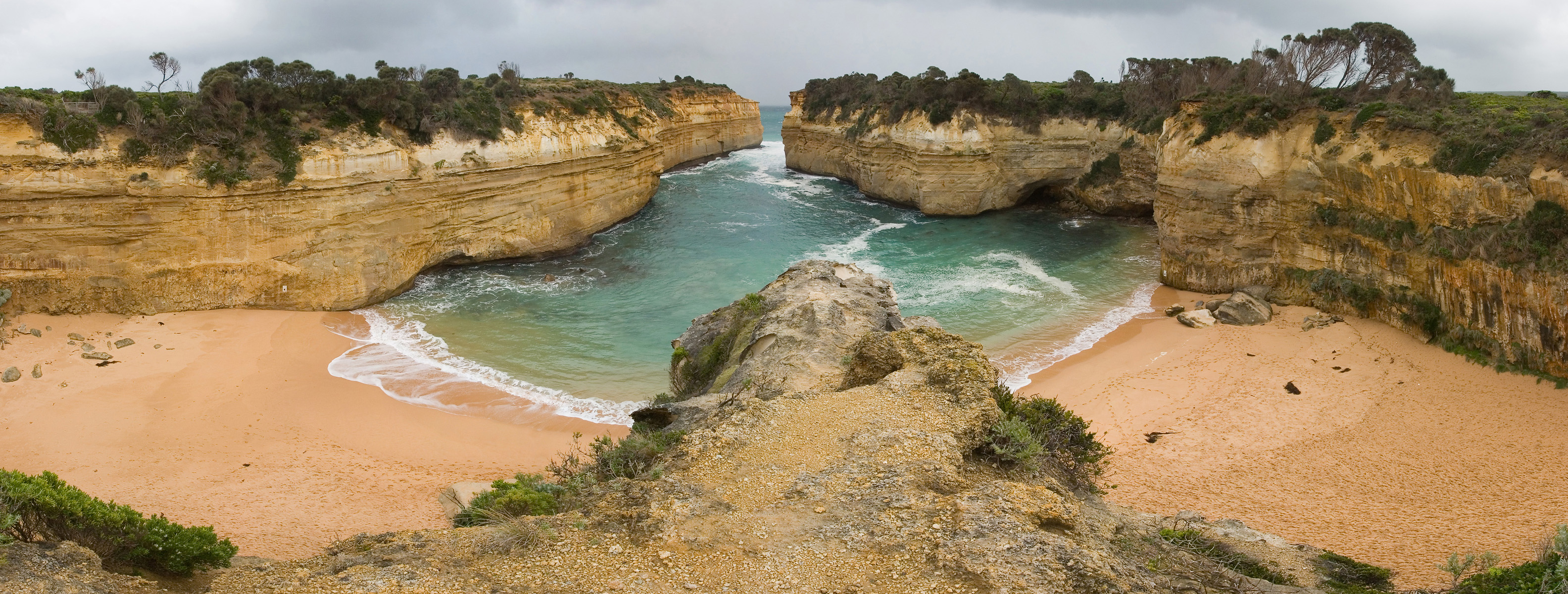 A panorama of 4 segments taken from the cliffs looking down towards Loch Ard Gorge and the beach. Taken with a Canon 10D and 17-40mm f/4L lens in July 2005.